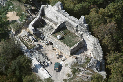 Tátika castle, Hungary, aerialphotography